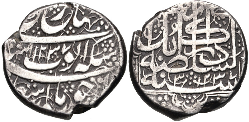 AFGHANISTAN, Durrani Shahs. Ayyub Shah. Circa AH 1233-1241 / AD 1818-1826. AR Rupee (21mm, 10.37 g, 8h). Kabul mint. Dated AH 1237 and RY 3 (AD 1821). Album 3135; KM 468. VF, toned, minor edge flaws. Very rare.